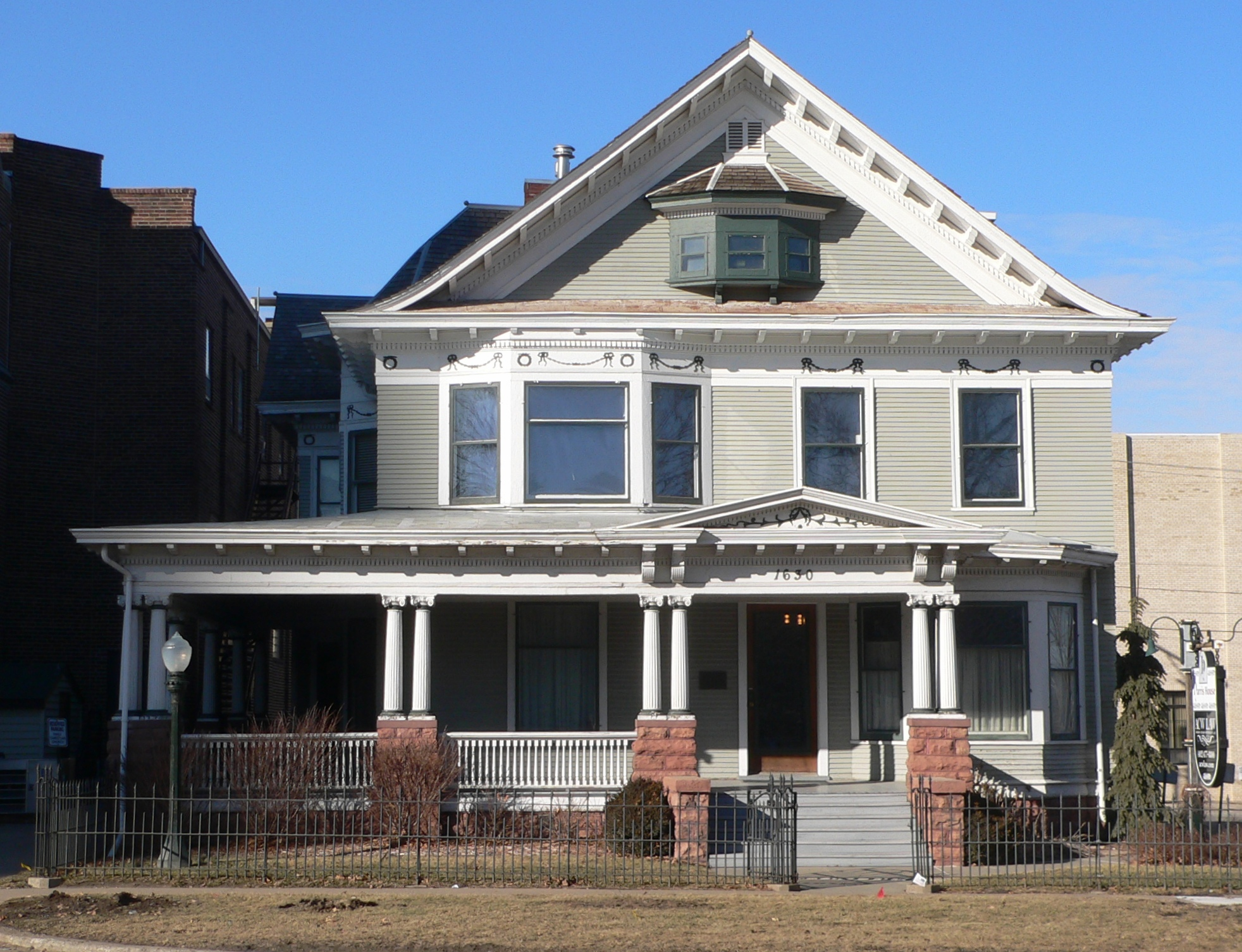 Harris house, located at 1630 K Street in Lincoln, Nebraska; seen from the south, across K.